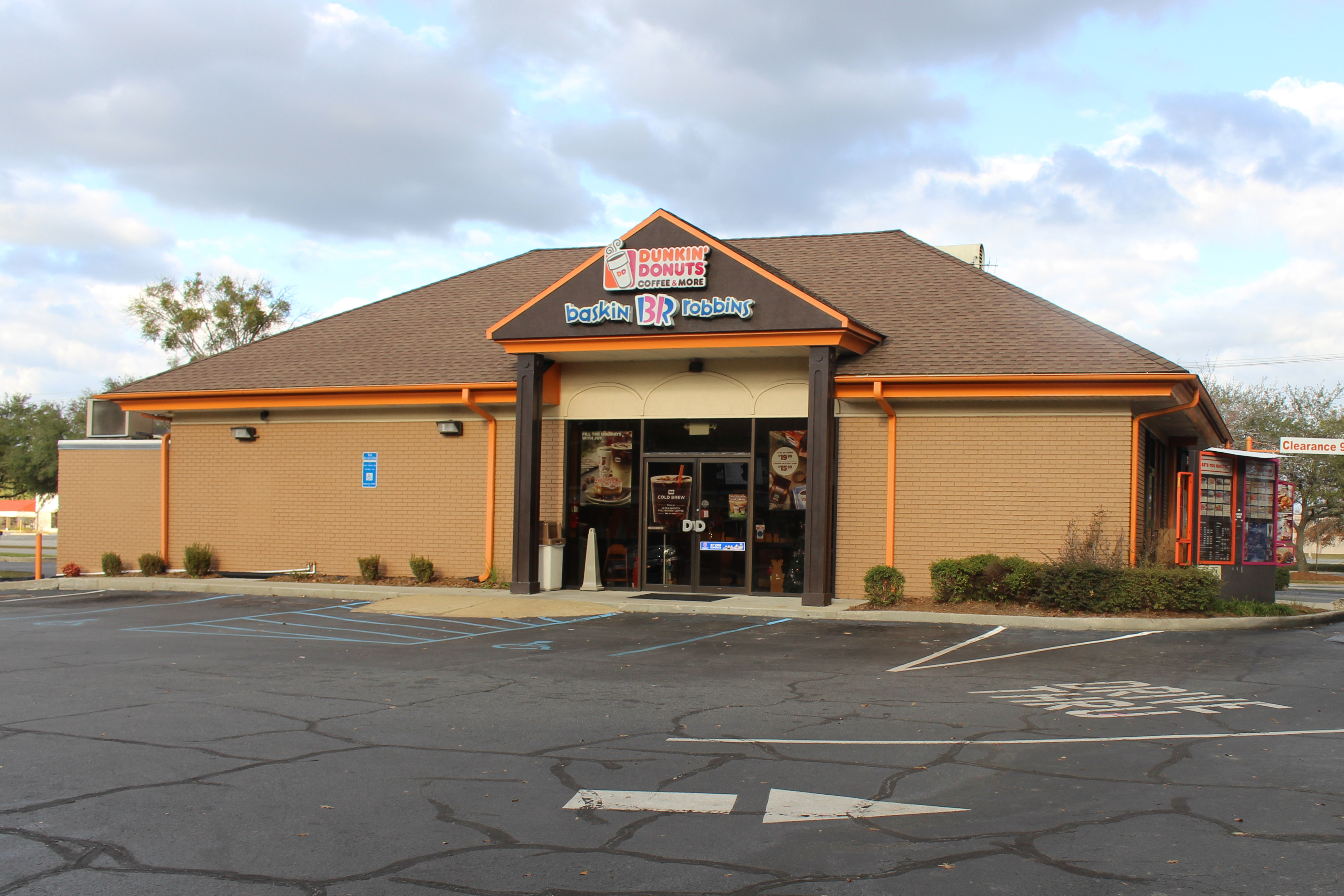 Dunkin' Donuts Baskin Robbins, Thomasville, Thomas County, Georgia